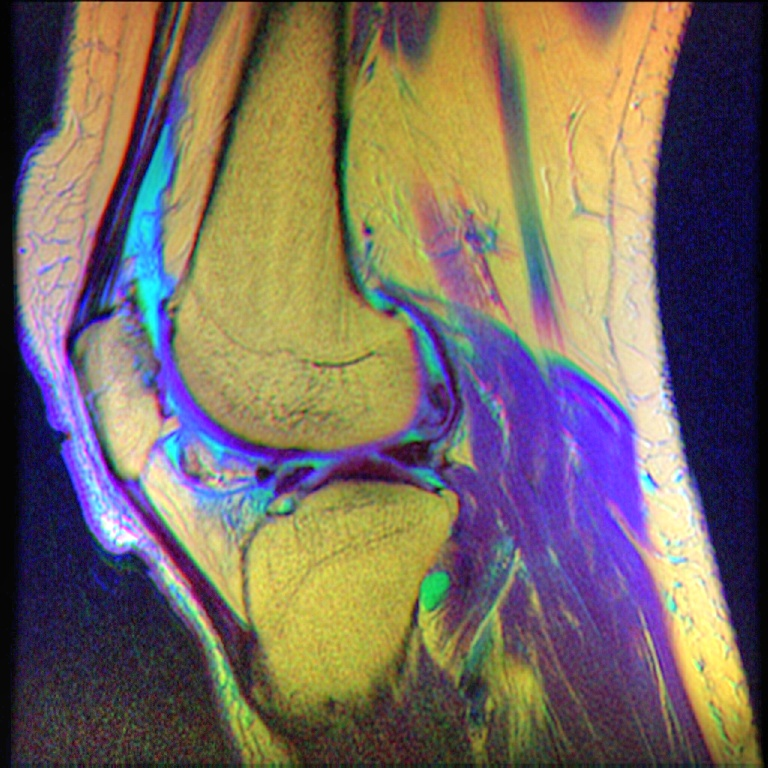 MRI images of the knee, showing chondromalacia patellae.